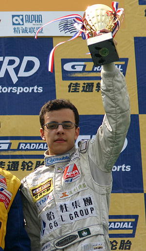 Rodolfo Avila on the podium in Zhuhai after a Formula Renault race.